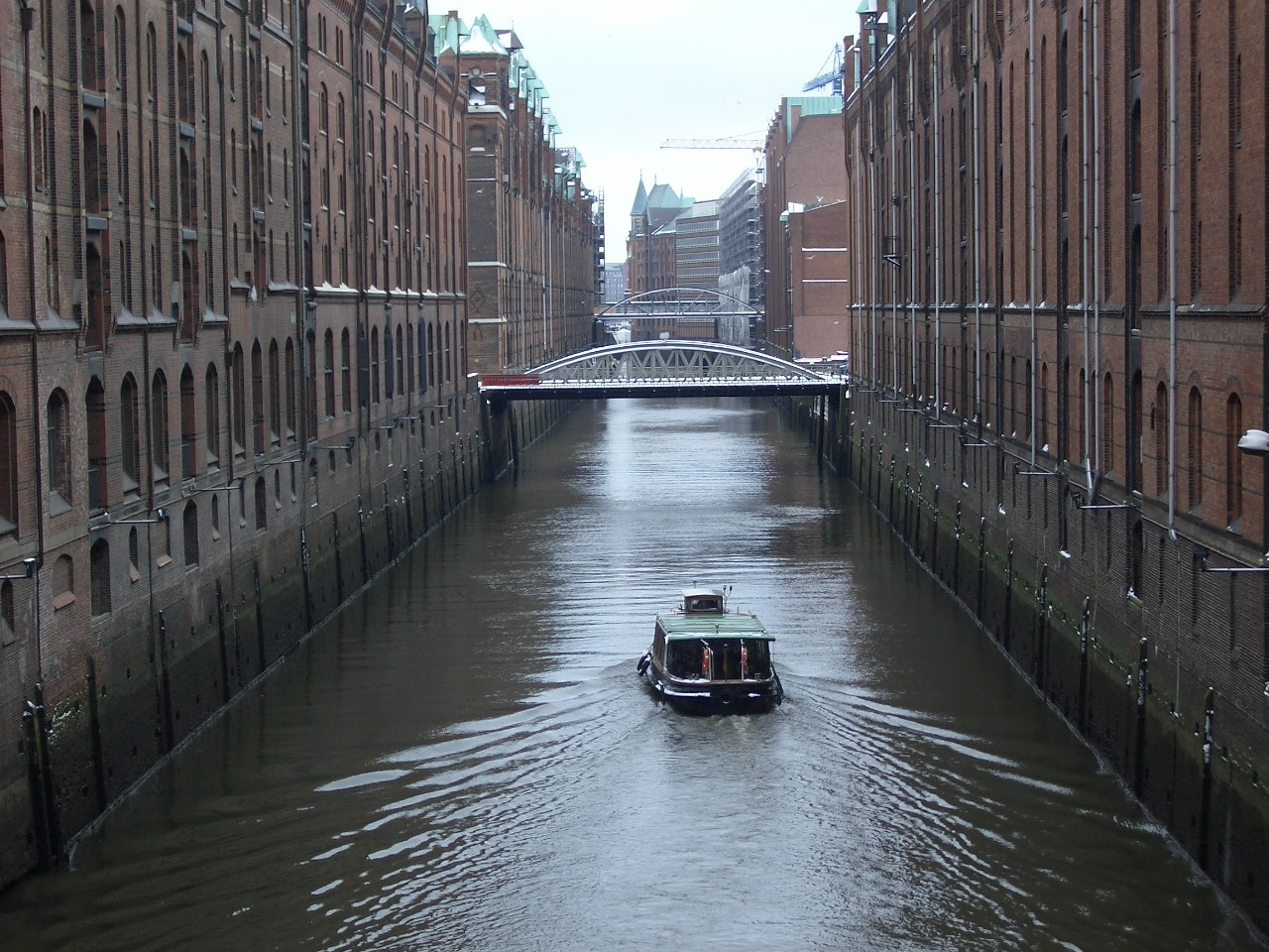 A boat in the Speicherstadt, Hamburg. This is the photograph of an architectural monument. It is part of the list of cultural monuments of Hamburg, no. 968